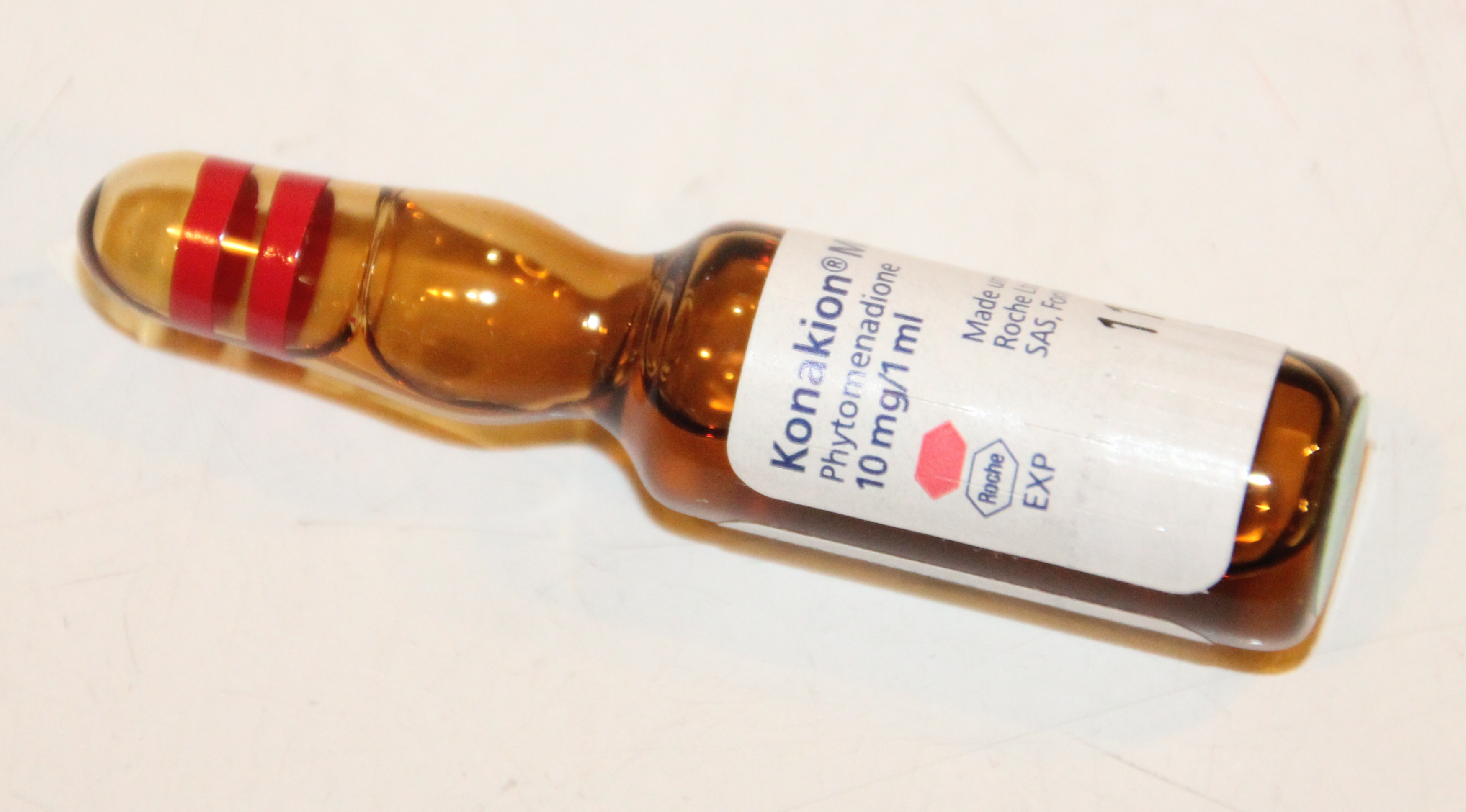 A sample oof phytomenadione for injection, 10 mg/ml